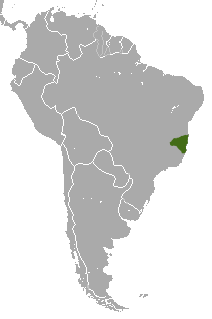 White-headed Marmoset (Callithrix geoffroyi) range